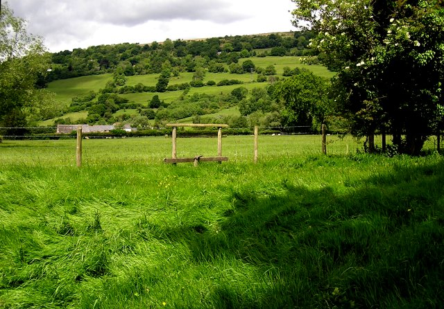 Farmland near Llanwenarth With the slopes of Sugar Loaf rising behind.